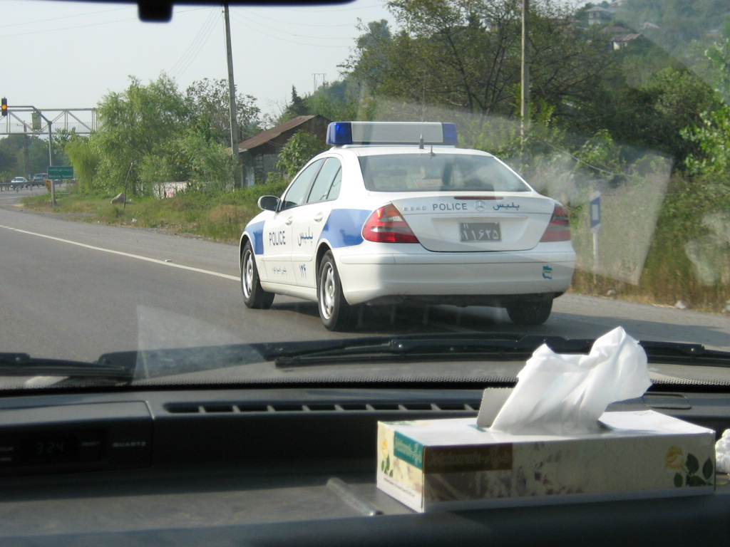 Mercedes-Benz E-Class assembled (SKD) in Teheran, Iran. Iran Khodro Diesel Co.